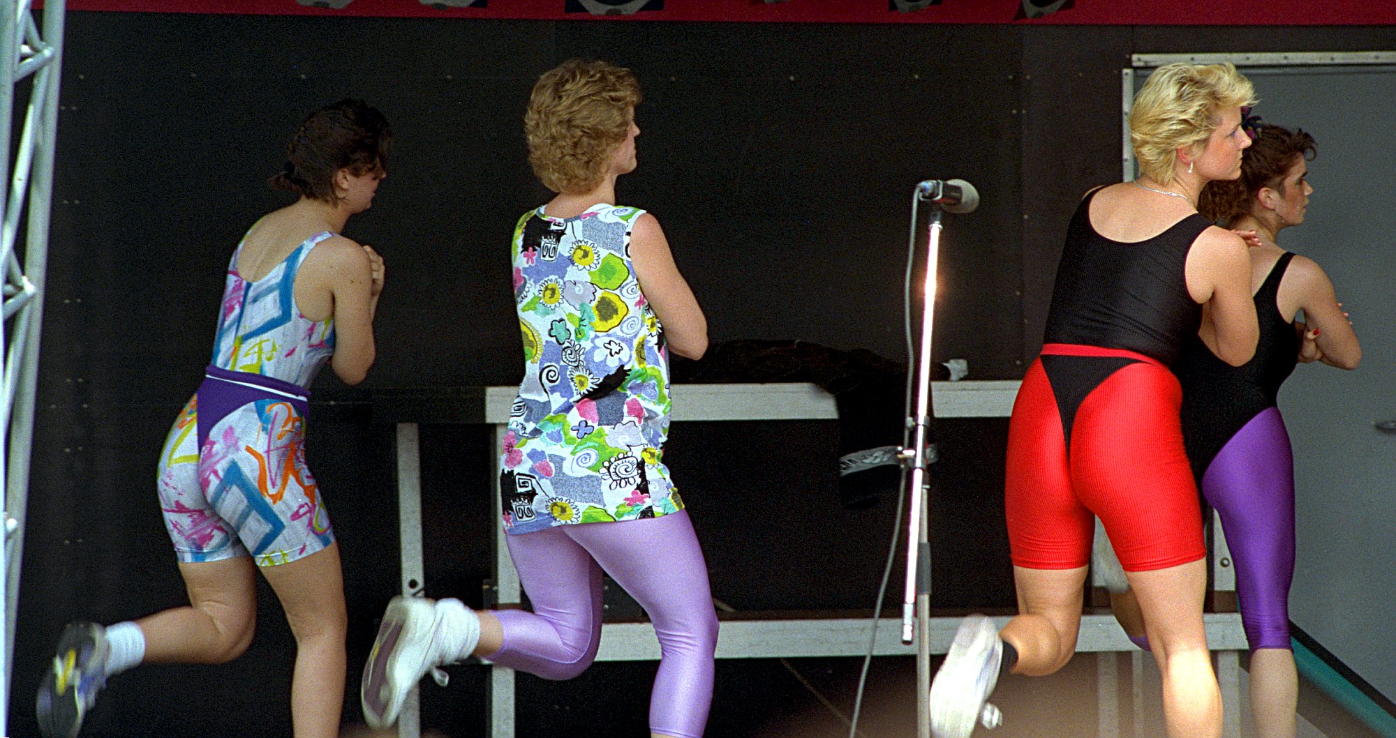 A public demonstration of aerobic exercises